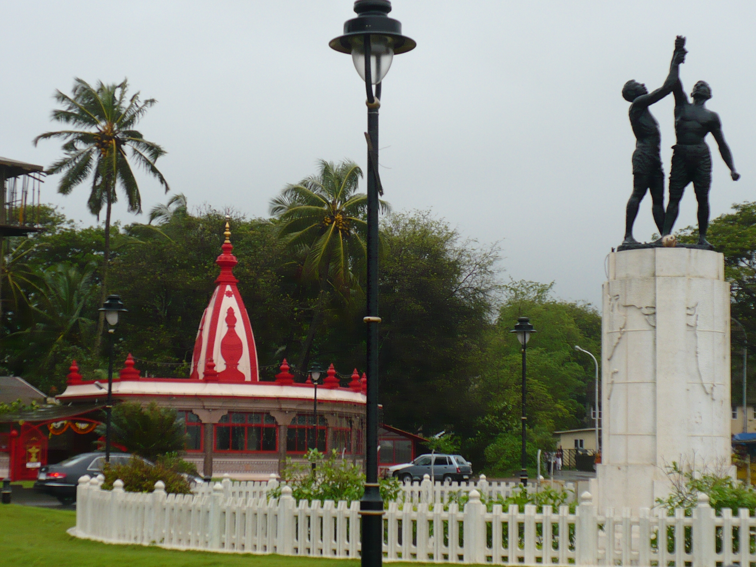 Goa memoerial statue.